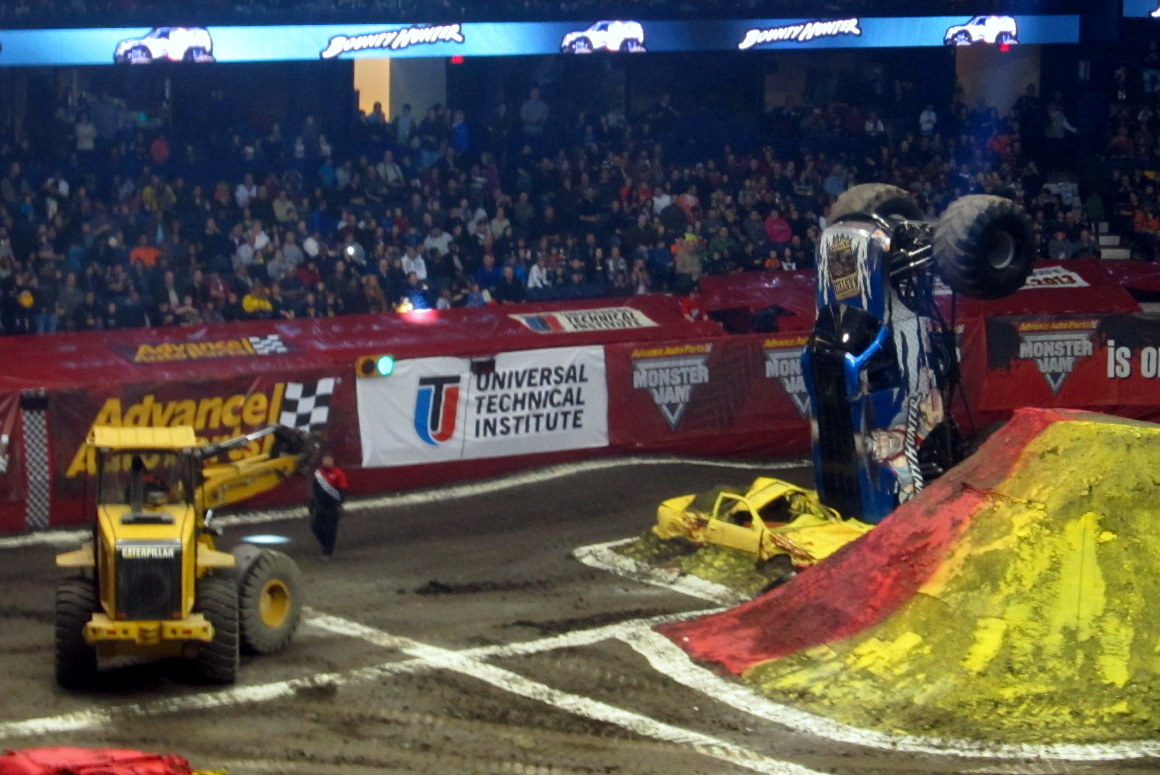 Monster Truck Bounty Hunter stuck in a vertical position after a wheelie jump